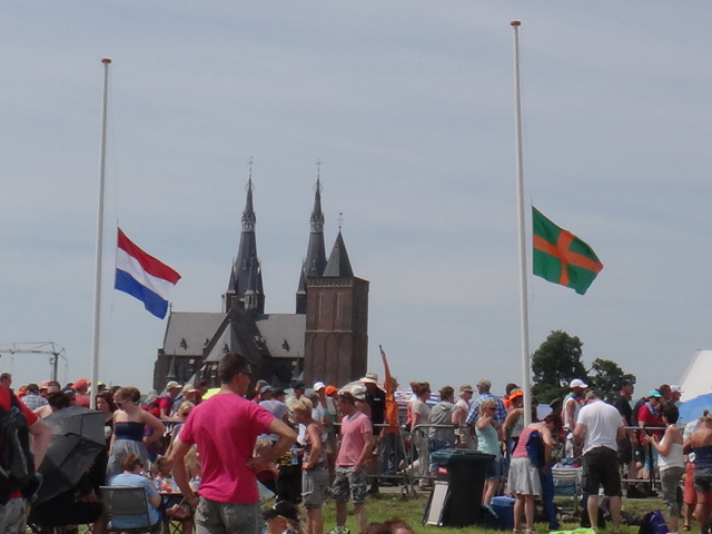 Flags flying at half-mast on Nijmegen Marches